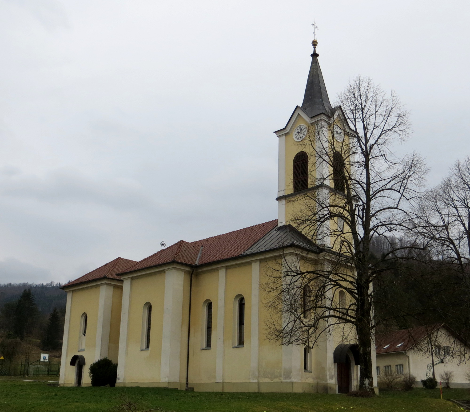 Saint Vitus's Church in Želimlje, Municipality of Škofljica, Slovenia